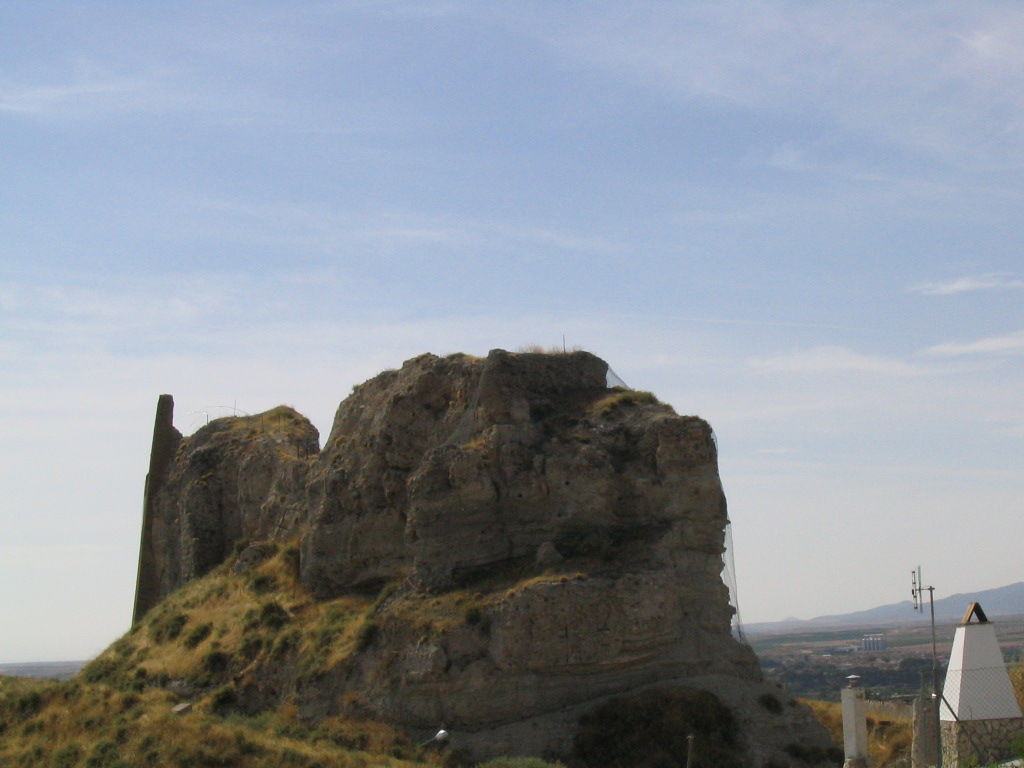 Borja's Castle (Borja-Zaragoza-Spain)